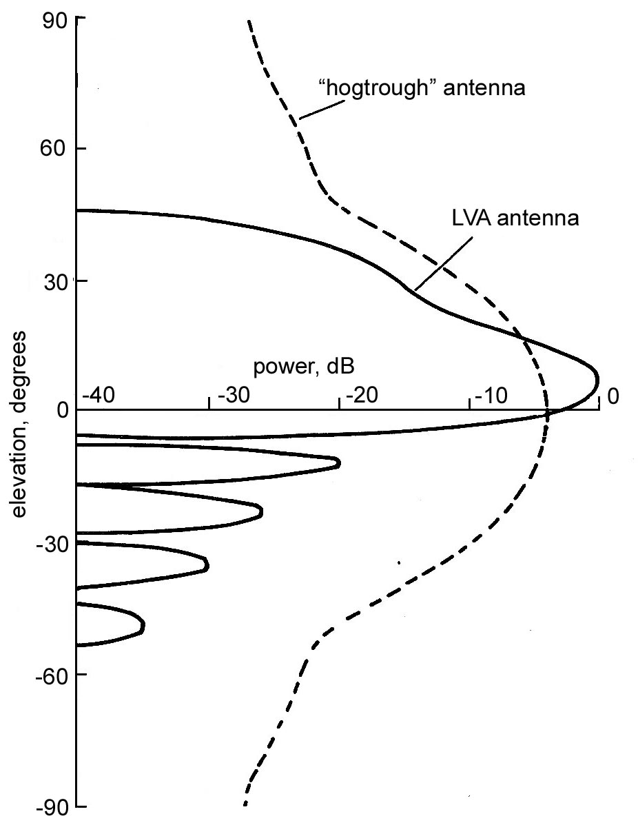 Comparison of vertical antenna beams for two types of antenna for use with secondary surveillance radar